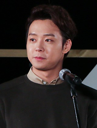 Yoochun at Busan International Film Festival "Sea Fog" outdoor stage greeting, 3 October 2014